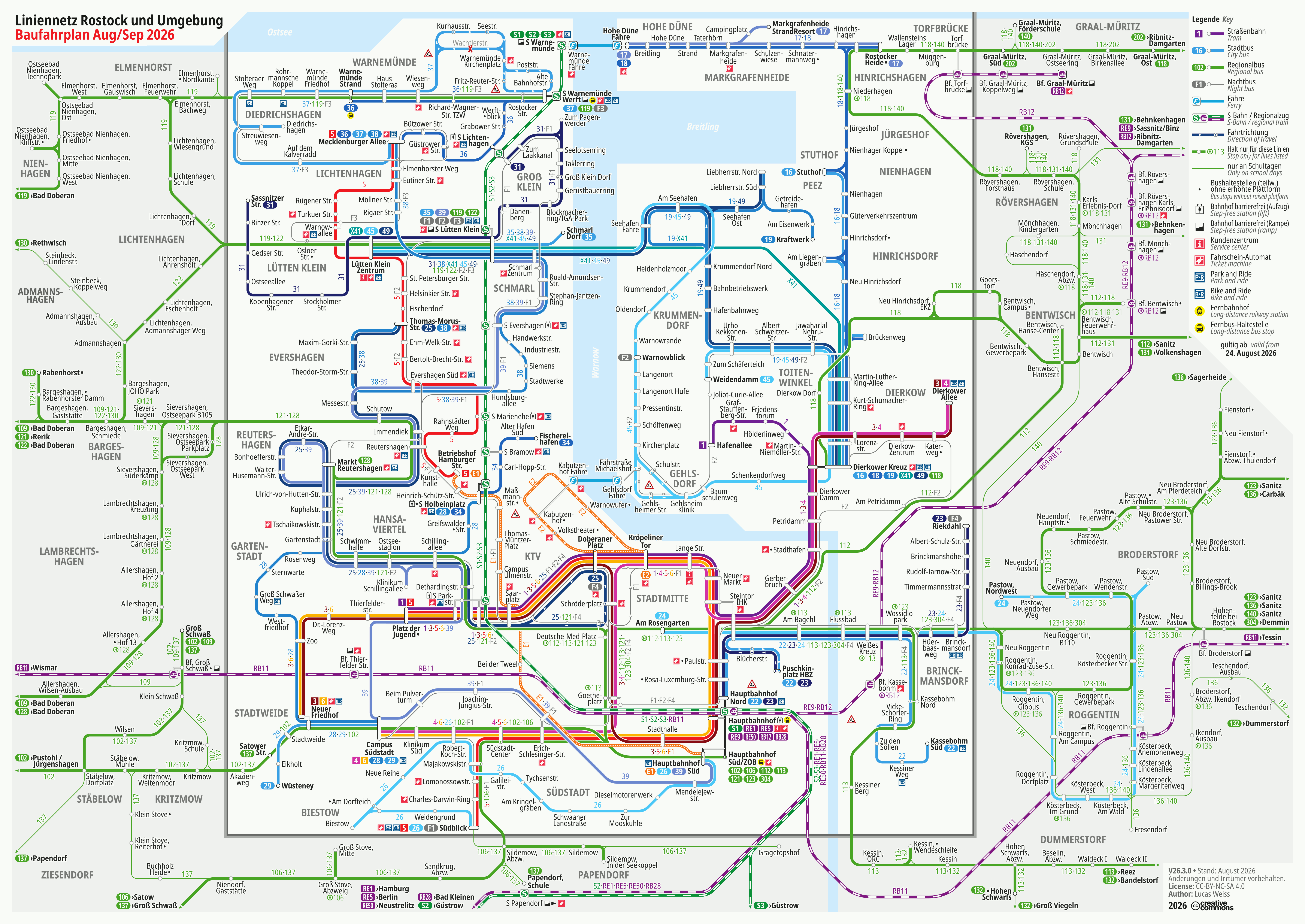 Transit map of Rostock and suburbs